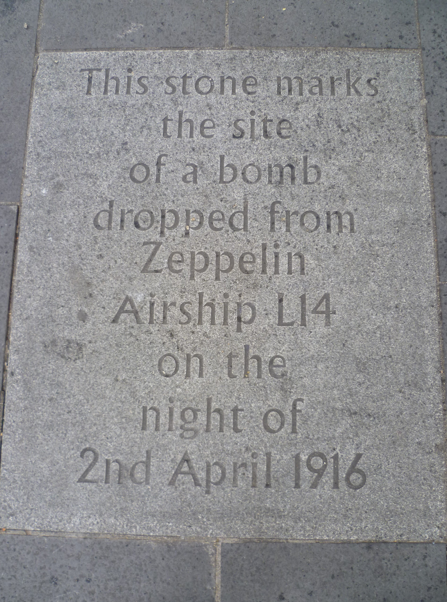 Flagstone marking the spot where a bomb dropped from Zeppelin L14 landed in the Grassmarket just before another struck the Castle Rock. Apart from a bonded whisky warehouse set ablaze in Leith, the raid did little damage, but questions were asked as to why the city was so ill-prepared for such an attack.